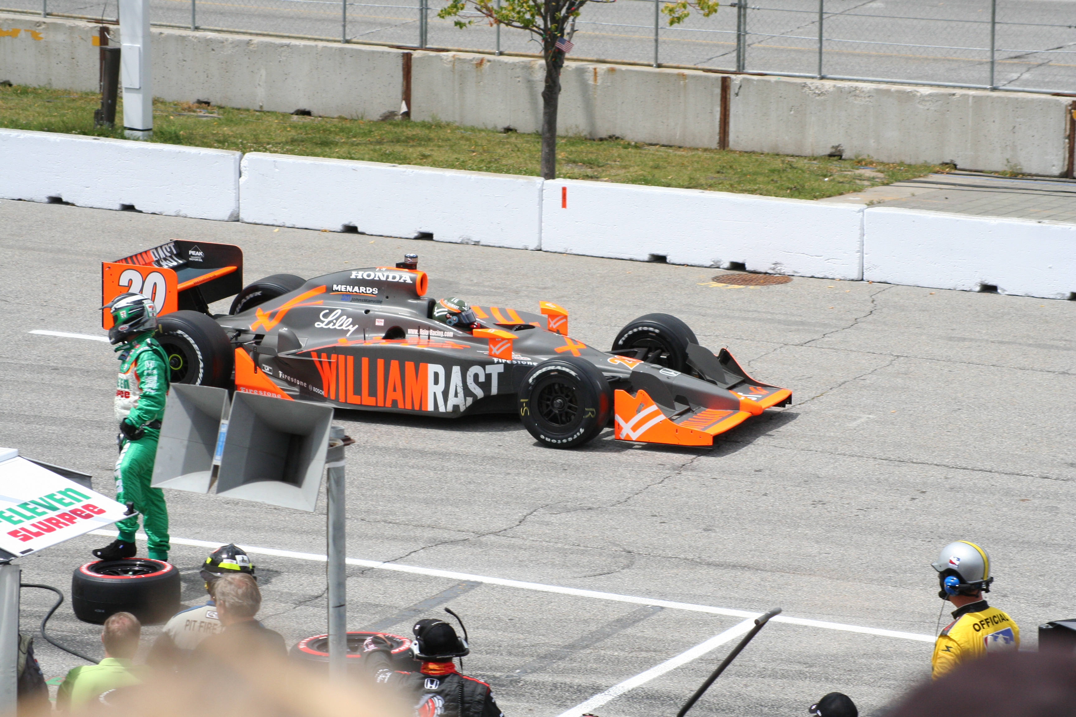 Ed Carpenter on pit road during the 2009 Indy Toronto